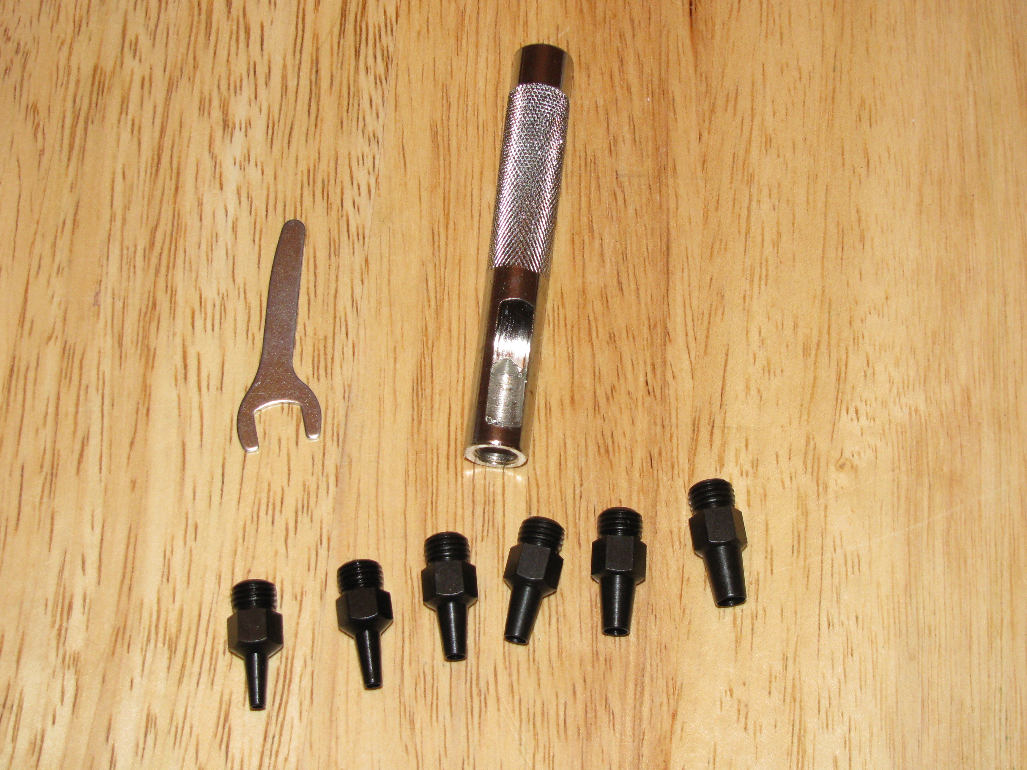 A hollow tube leather punch with several interchangeable tips. A tip is screwed into the punch and then placed on a piece of leather backed by a soft piece of wood. The other end of the punch is then struck with a mallet. A small leather disc is cut from the leather and forced into the tube. It can be ejected from the slot in the side.